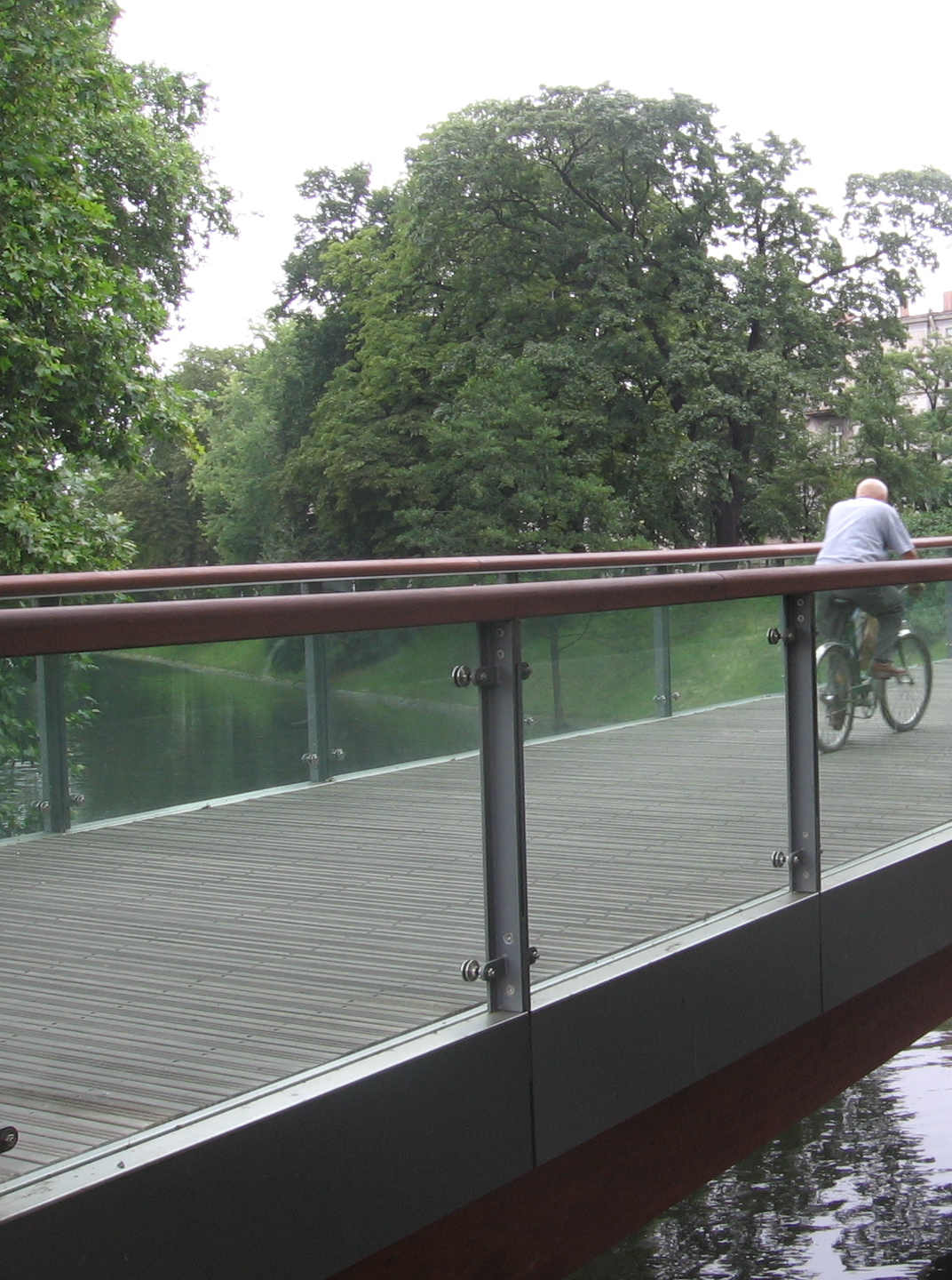 Świebodzka footbridge in Wrocław, Poland.The pavement made from African "red iron wood" (Lophira alata)